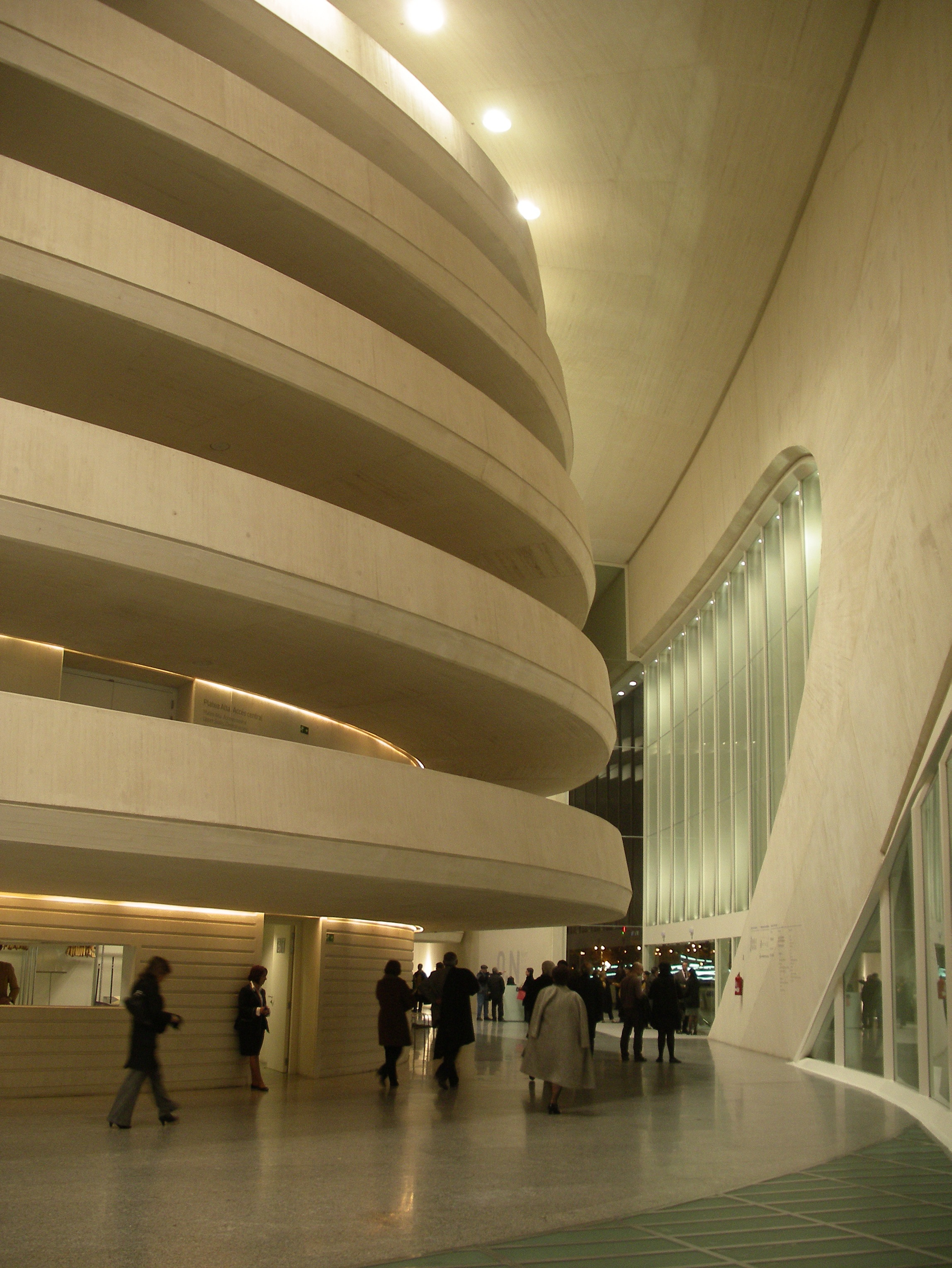 Foyer at the main auditorium of the Palau de les Arts, Valencia (opera house)